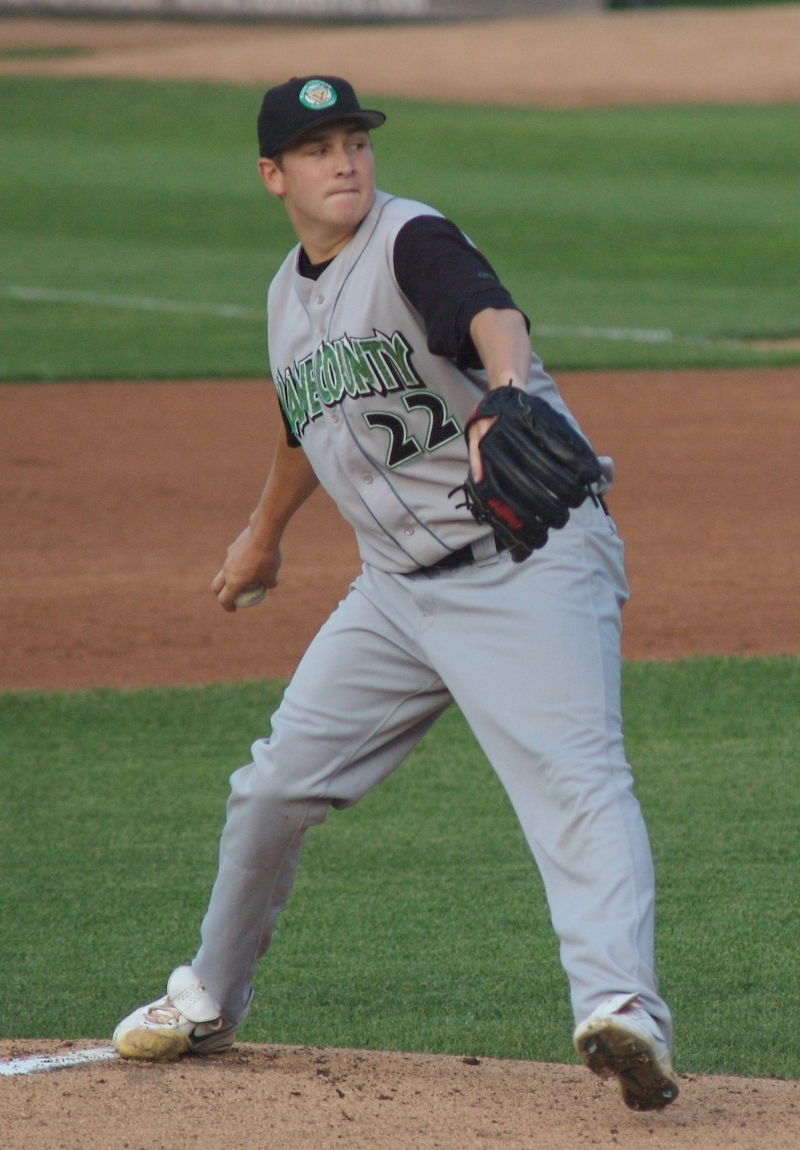 Trevor Cahill